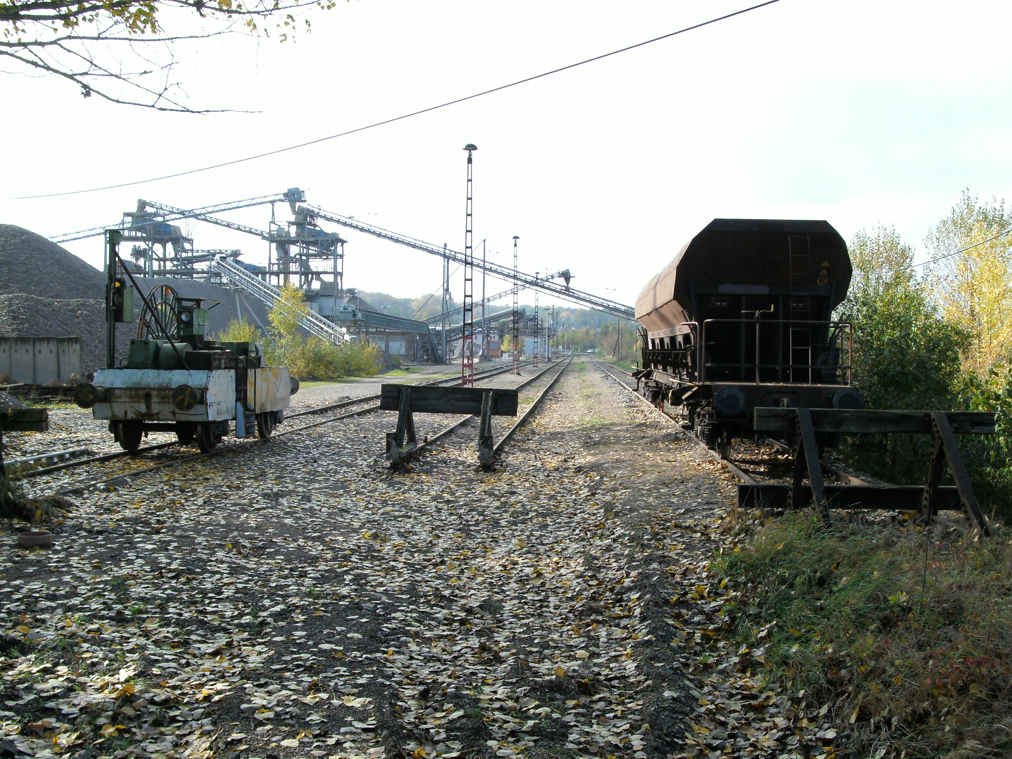 End of the railroad to Bad Liebenstein